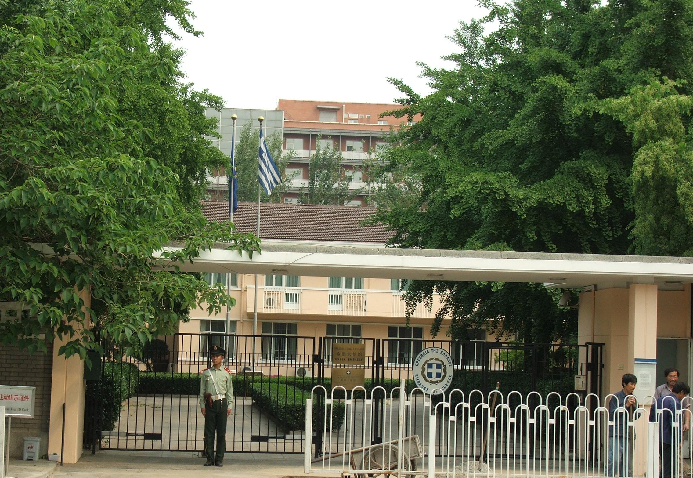 Embassy of Greece in Beijing - China. No. 19 Guang Hua Lu, Chao Yang District, Beijing 100600